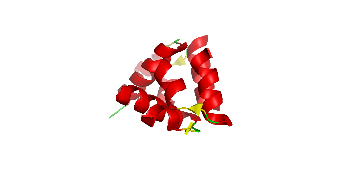 Pymol generated structure from pdb file